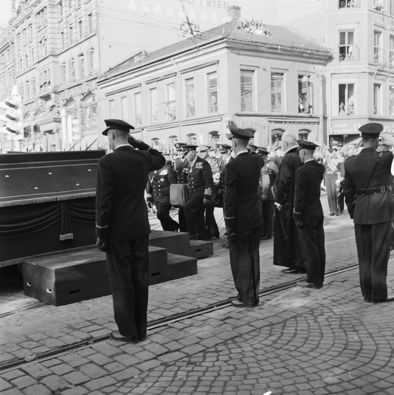 Funeral of Haakon VII of Norway